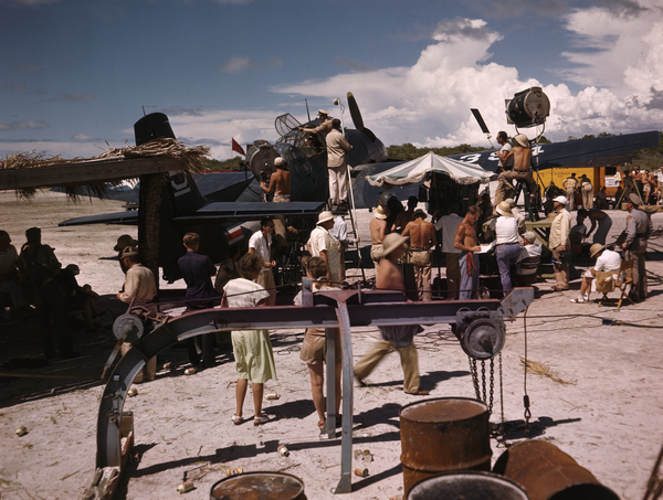 Persistent URL: Local call number: JJS0290 Title: Filmming of "On an Island with You," Anna Maria Island, Florida Date: ca. 1948 General note: "On an Island with You," is a 1948 musical romantic comedy directed by Richard Thorpe. It starred Esther Williams, Peter Lawford, Ricardo Montalban, Cyd Charisse, and Kathryn Beaumont. Physical descrip: 1 transparency - col. - 4 x 5 in. Series Title: Joseph Janney Steinmetz Collection Repository: State Library and Archives of Florida, 500 S. Bronough St., Tallahassee, FL 32399-0250 USA. Contact: 850.245.6700.